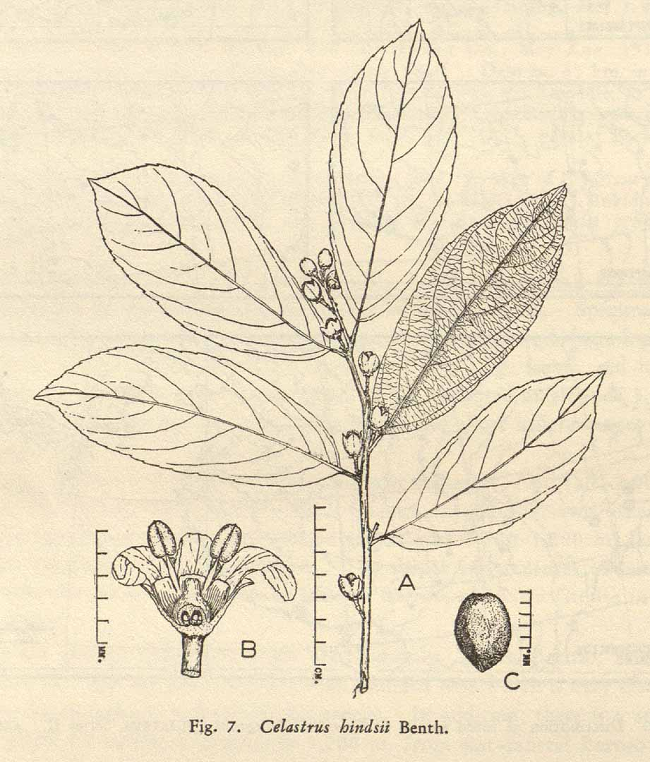 Illustration of Celastrus hindsii by George Bentham